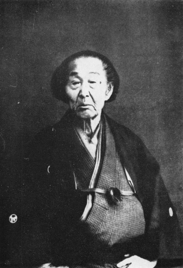 Portrait of Hidetoshi Murakami.